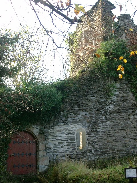 Corra Castle. This castle was really a 15th century fortified farmhouse, built in an ideal position, protected on three sides by cliffs descending to the Clyde Gorge, just above Corra Linn.